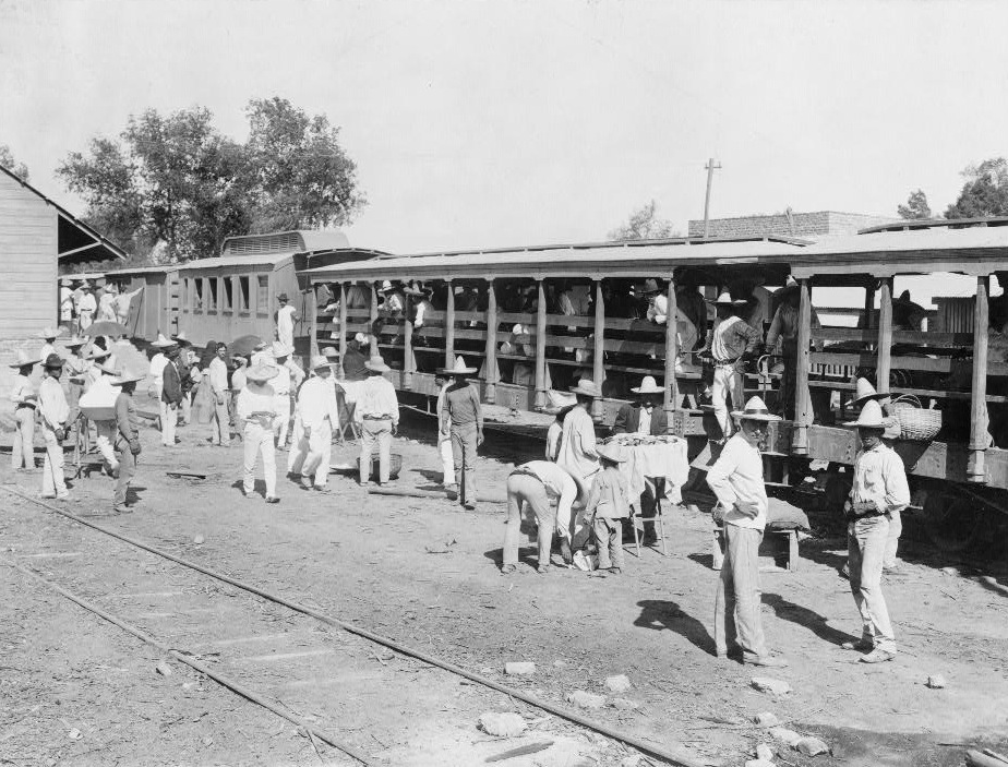 Men outside train stopped at station, Altata Railway, Navolato, Sinaloa, Mexico